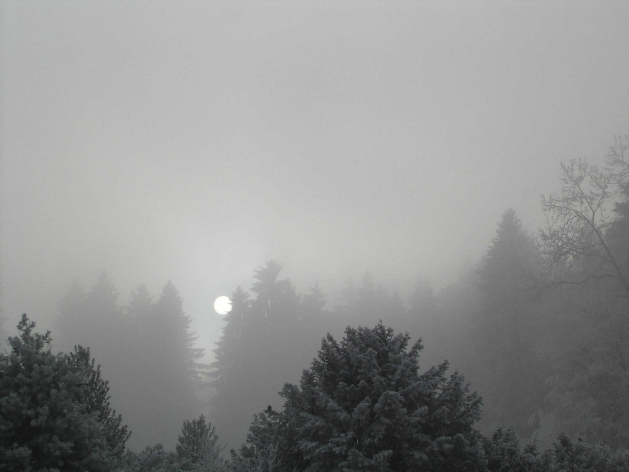 Grey Stratus nebulosus translucidus, CL = 6.